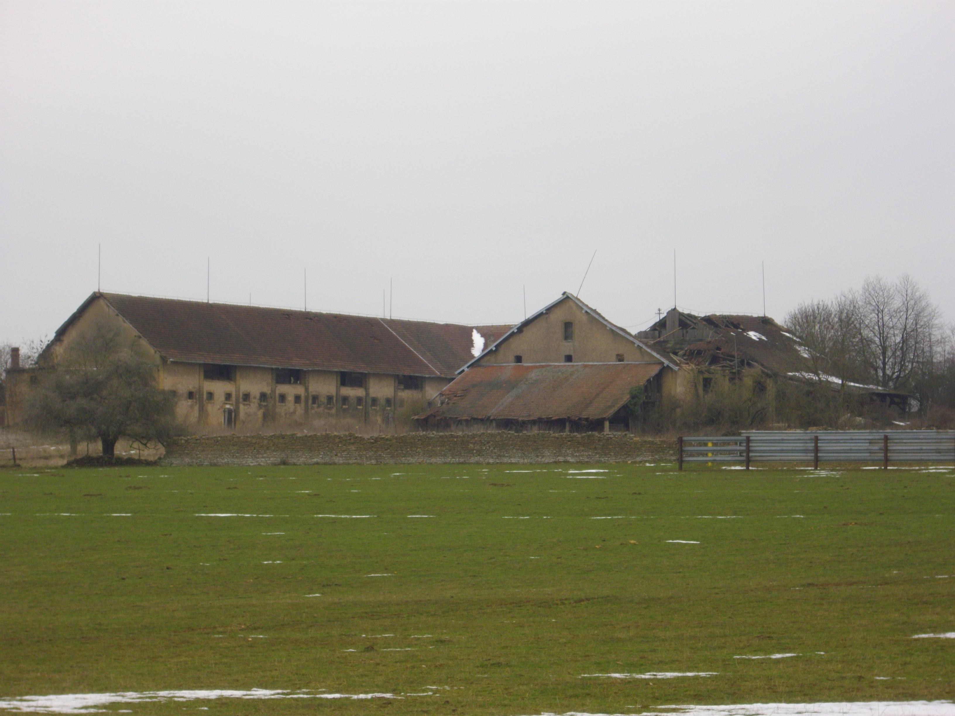 Saint George farm in Lessy (Moselle, France)